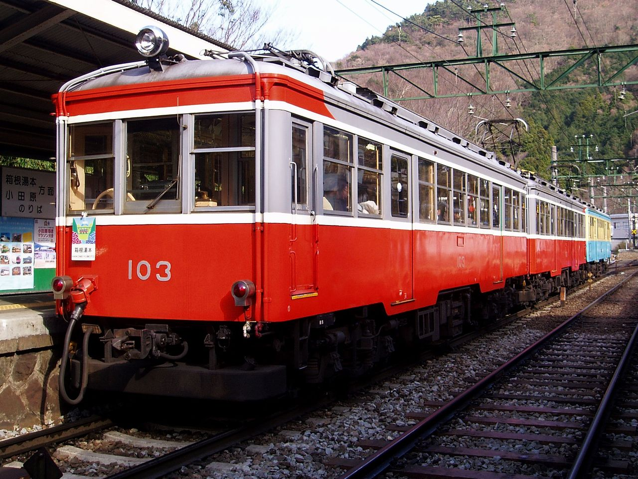 Hakone Tozan Railway Type 1 No.103.